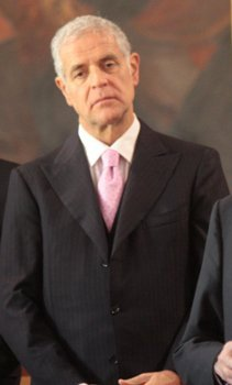 Roberto Formigoni in Bergamo for the visit of Giorgio Napolitano, 2 February 2011